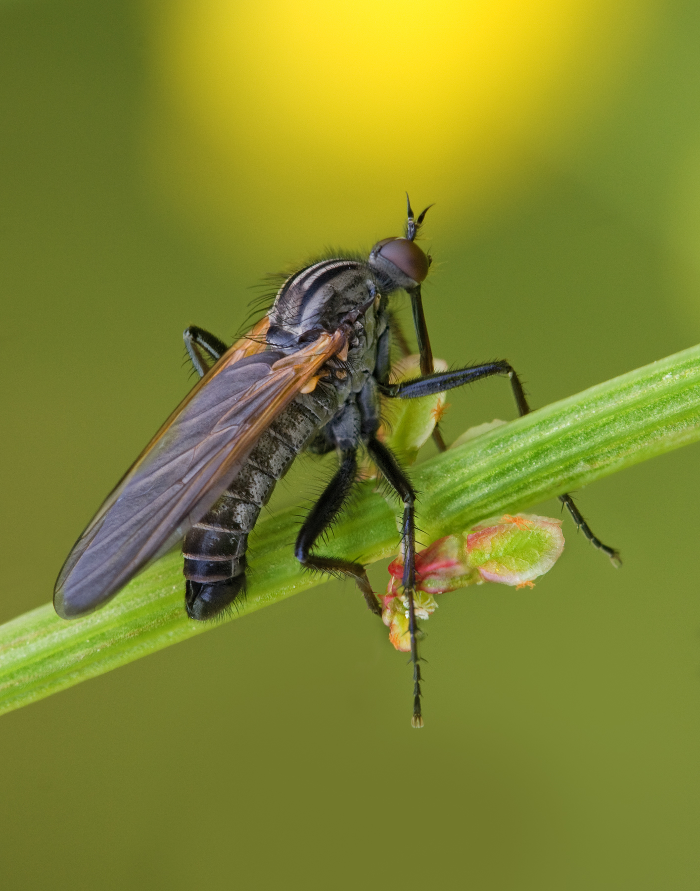 Dance fly (Empis tesselata)